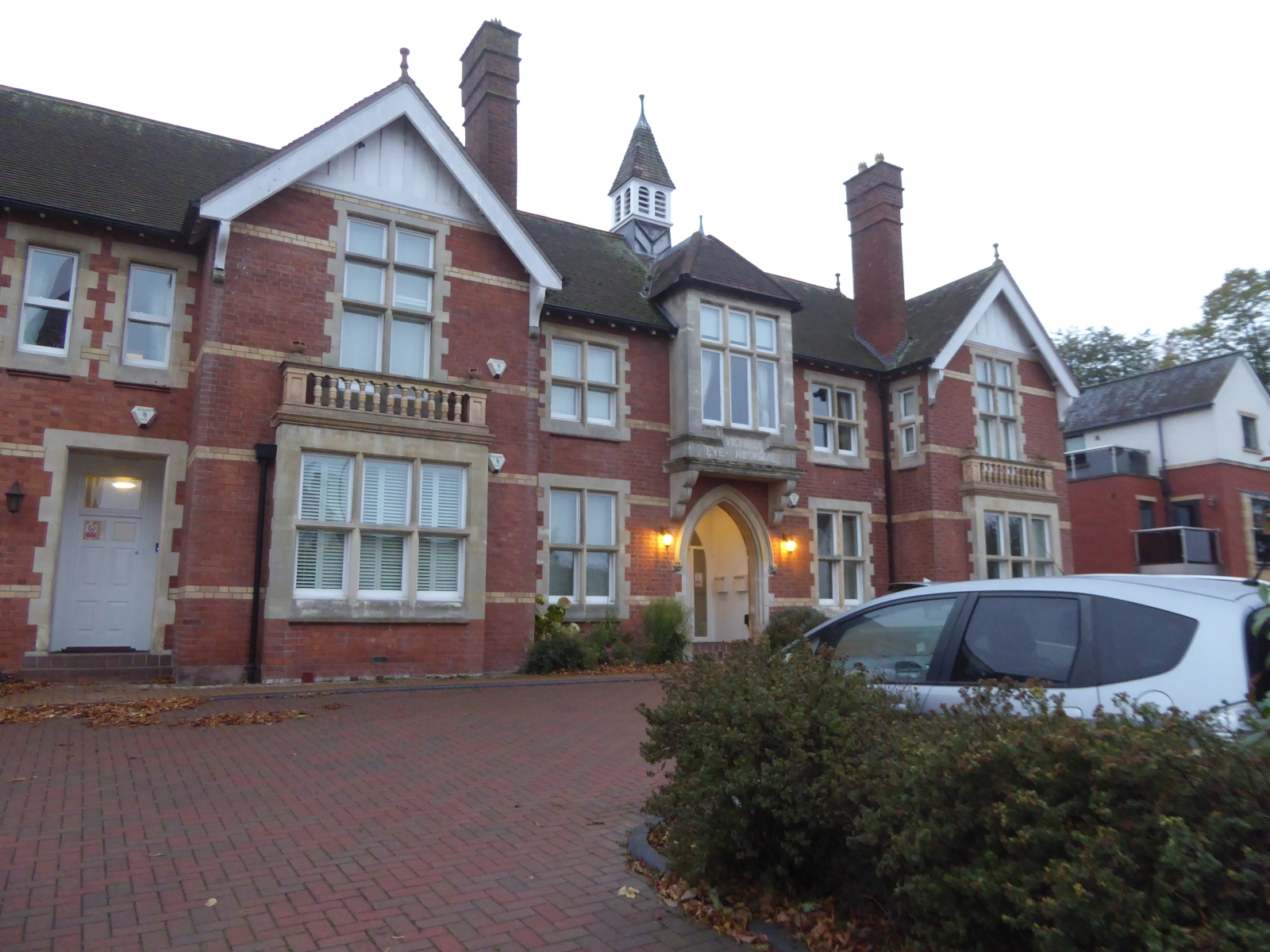 Former Victoria Eye Hospital, Hereford